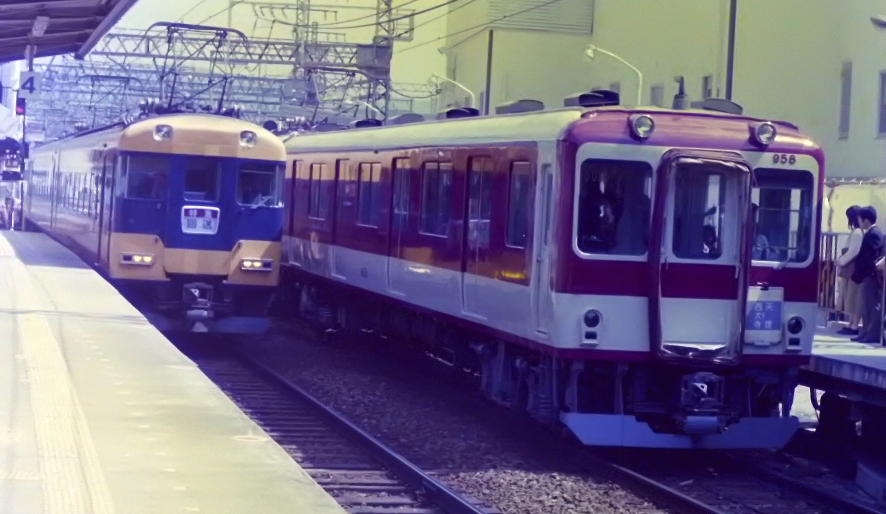 Kintetsu 18400 series (left) and 900 series (right) EMUs at Yamato-Saidaiji Station